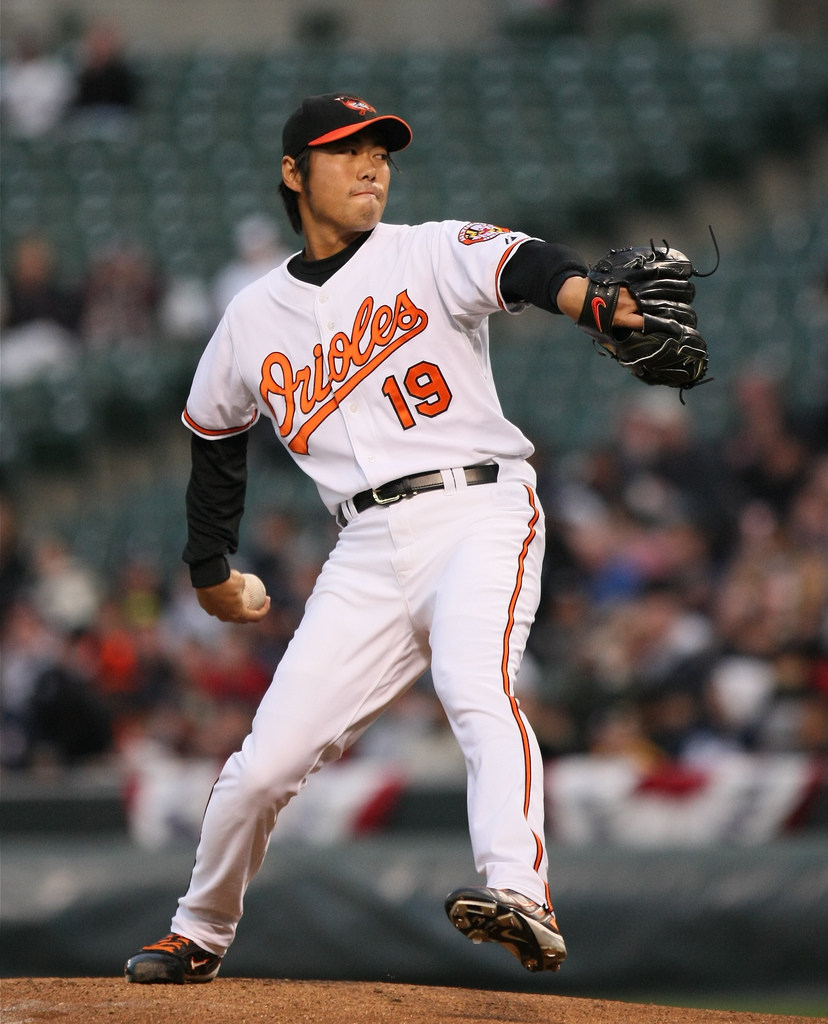 Koji Uehara, Baltimore Orioles